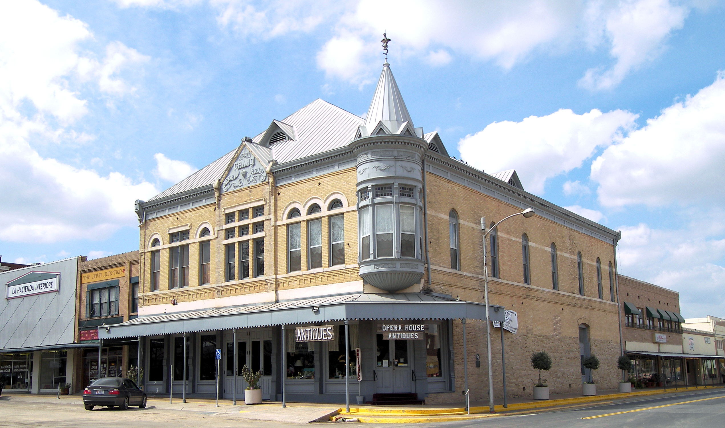 The Grand Opera House located in, Uvalde, Texas, United States. The site was designated a Recorded Texas Historic Landmark in 1967 and listed on the National Register of Historic Places on May 22, 1978.